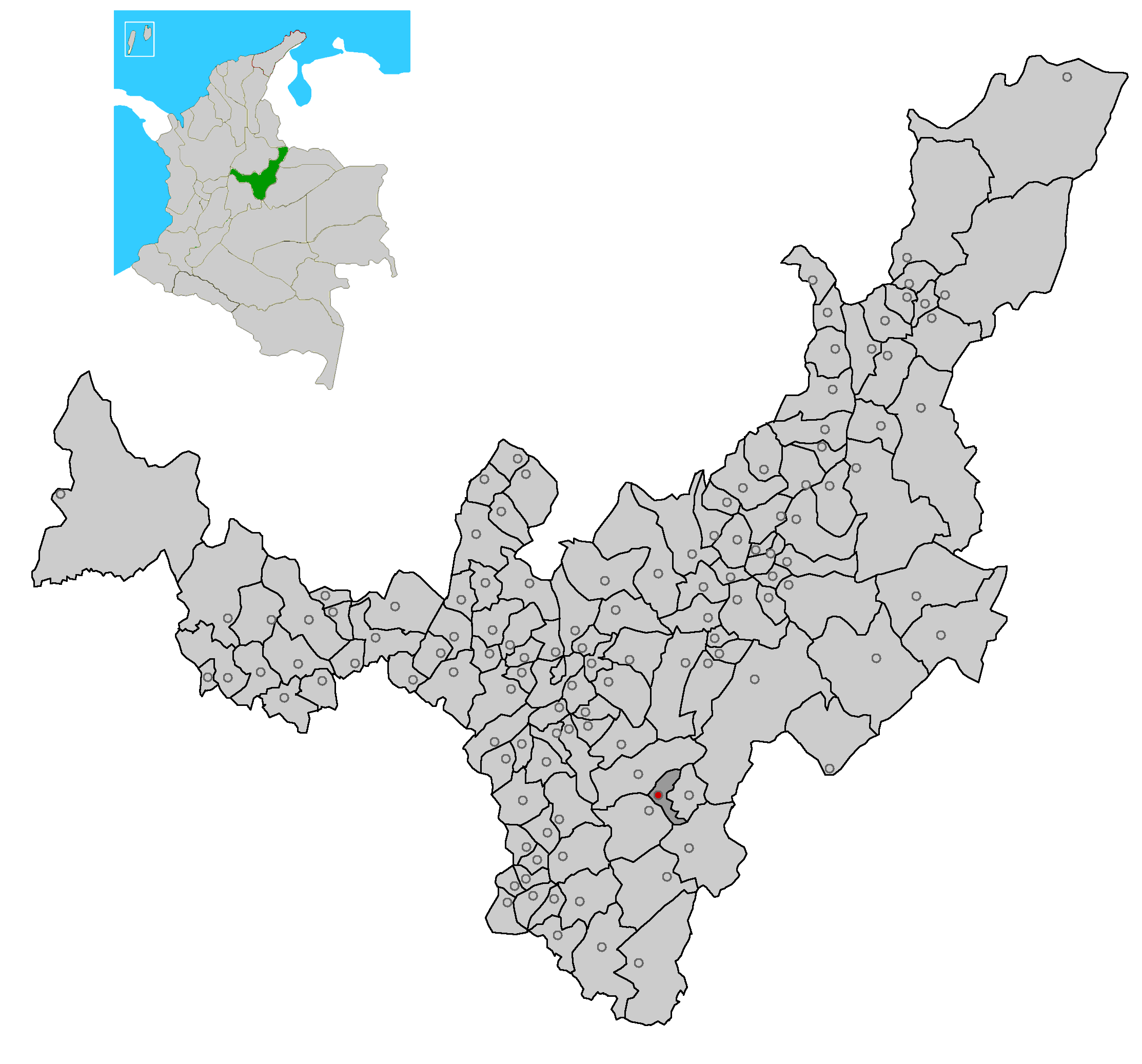 Image depicting map location of the town and municipality of Berbeo in Boyaca Department, Colombia